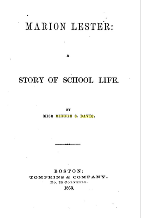 "Marion Lester: A Story of School Life", By Minnie S. Davis